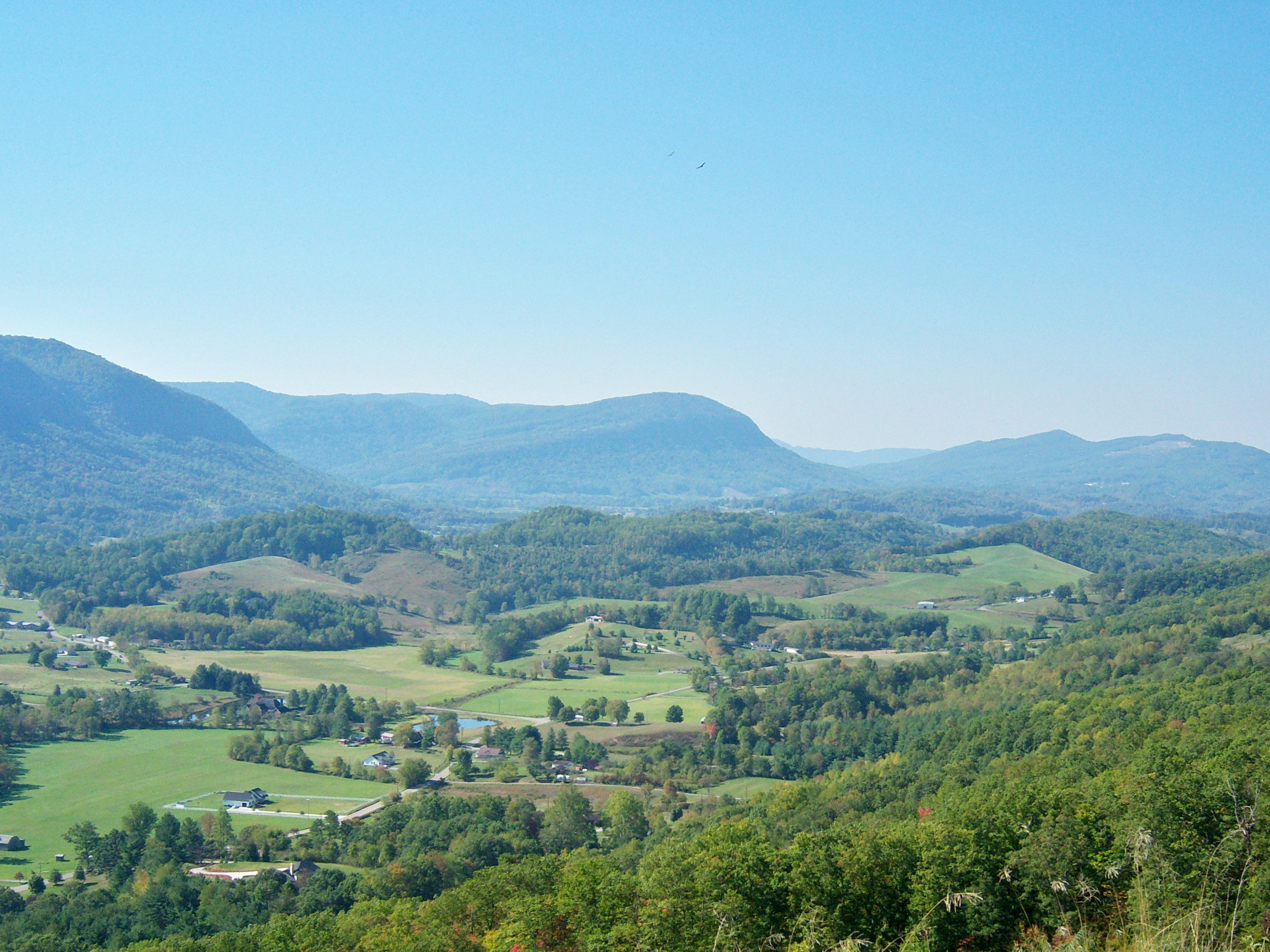 Powell Valley, as viewed from Benges Gap in Wise County, Virginia.